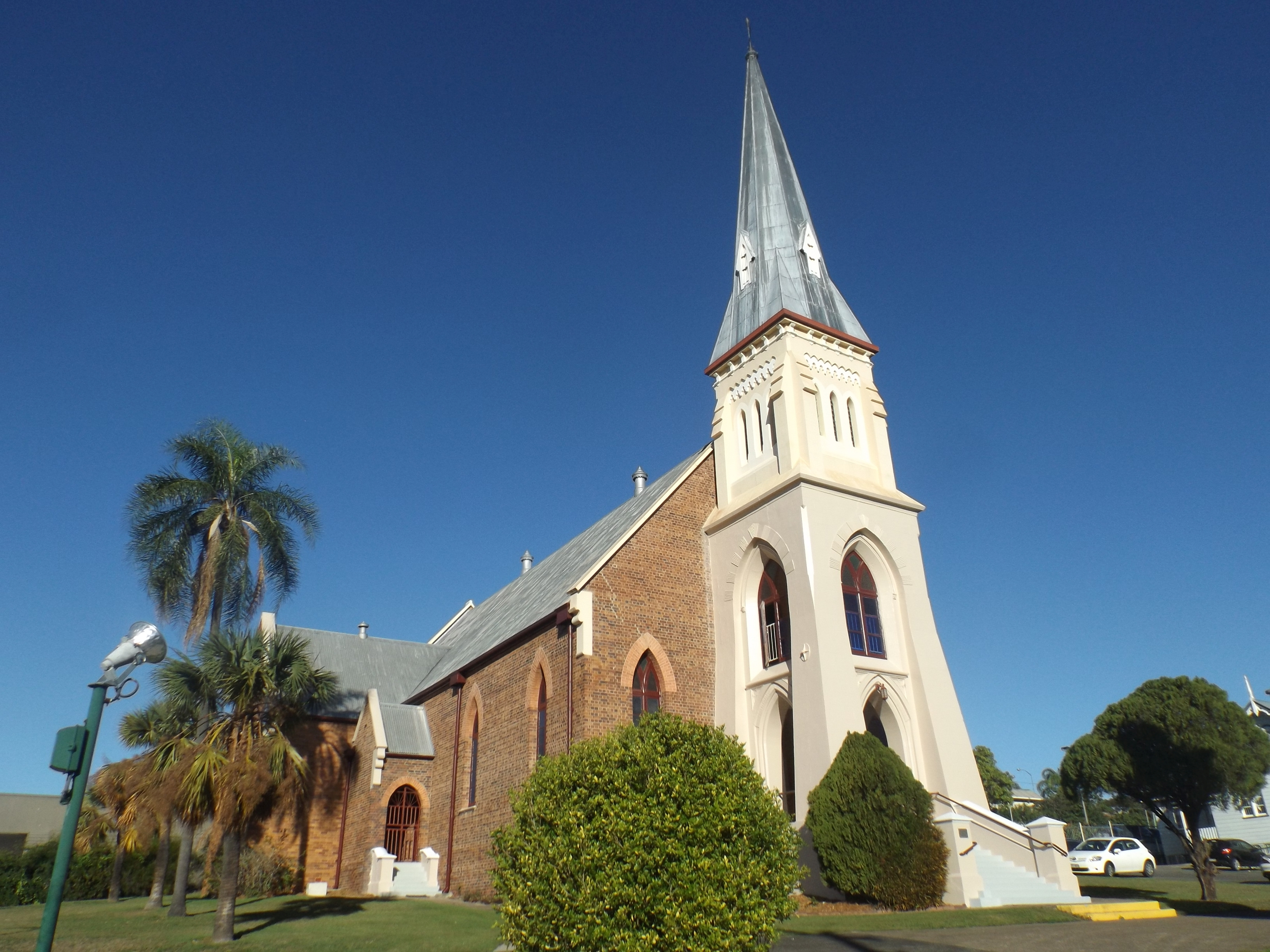 Photo of St Stephen's Church at Ipswich, Queensland, Australia.